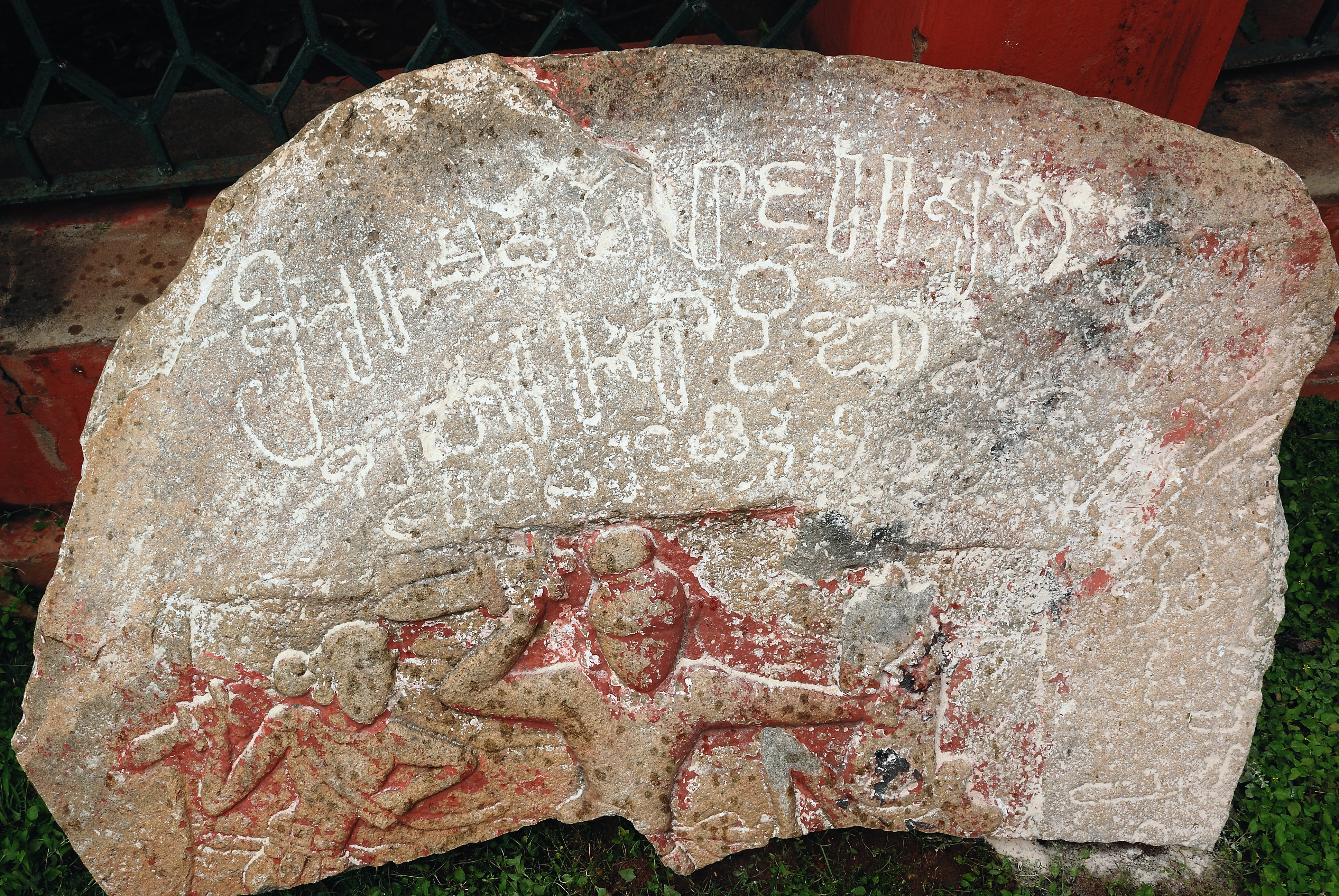 inscriptionstonesofbangalore